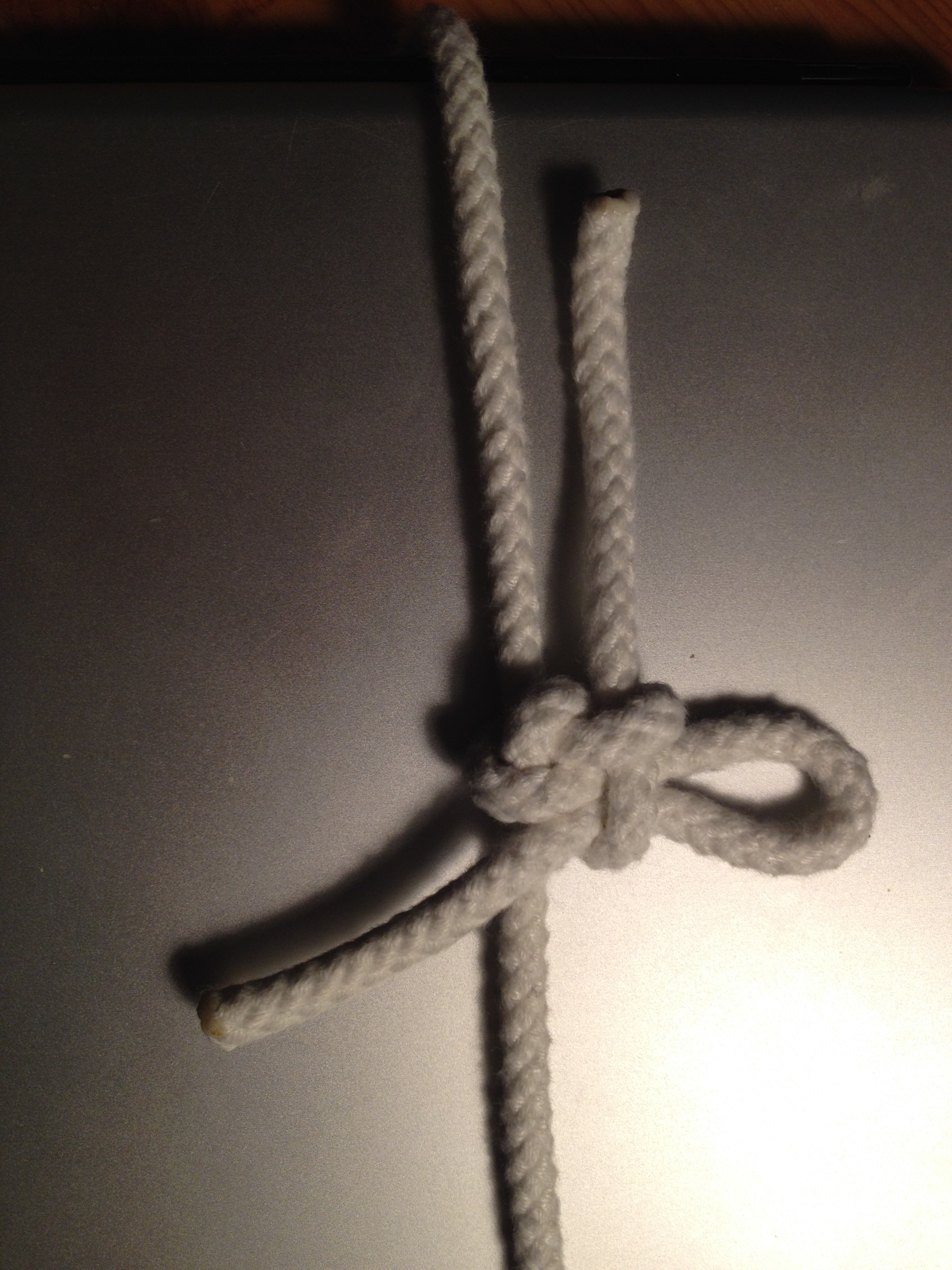 Slipped chinese crown bend, thingthened version (white cord on metallic grey); picture by cobanyastigi@wikimedia